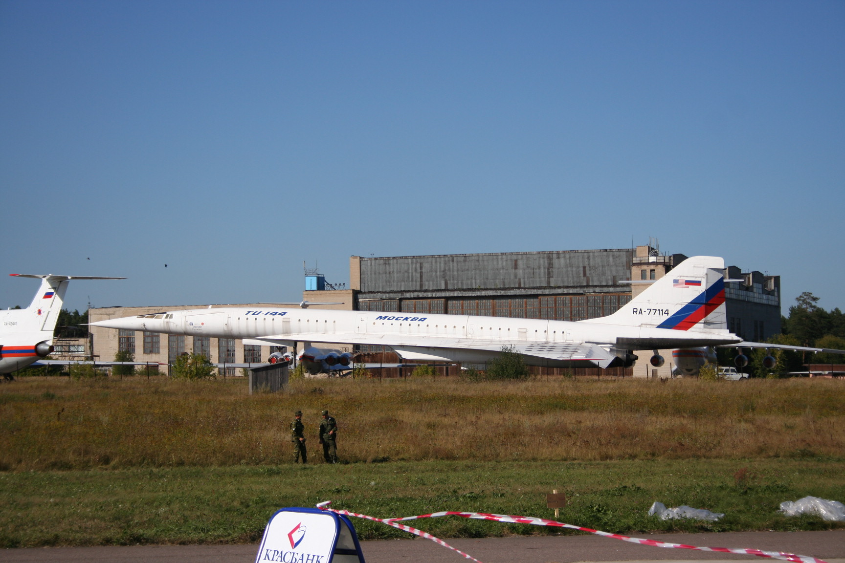 Tupolev Tu-144 at MAKS 2005